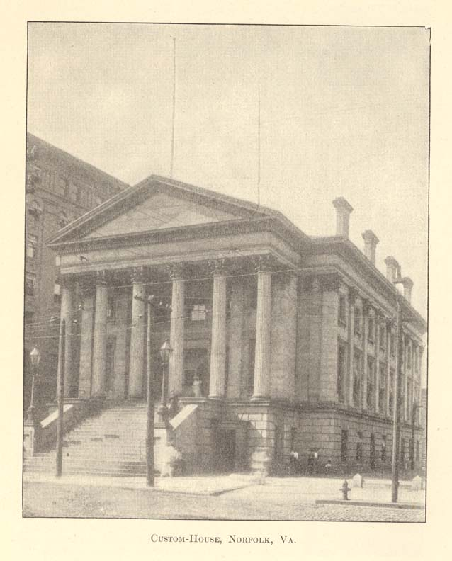 U.S. Custom House (1901) Norfolk city, Virginia U.S. Treasury Department, A History of Public Buildings (Washington, D.C.: GPO, 1901): 606-07. This image is a work of a United States Department of Justice employee, taken or made as part of that person's official duties. As a work of the U.S. federal government, the image is in the public domain (17 U.S.C. § 101 and 105).